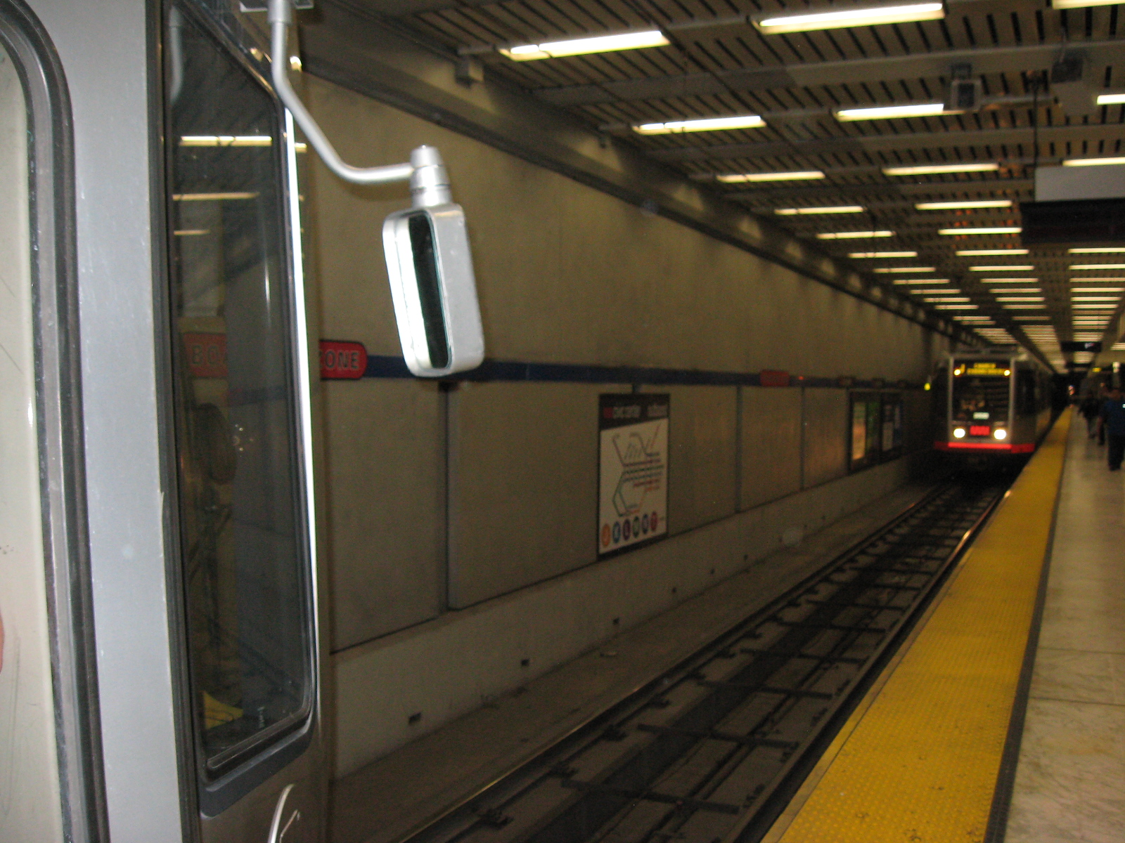 A Breda streetcar in San Francisco boarding passengers and another Breda streetcar waiting in the station level. This usually doesn't happen, but there might be a bug in the system, anyway.